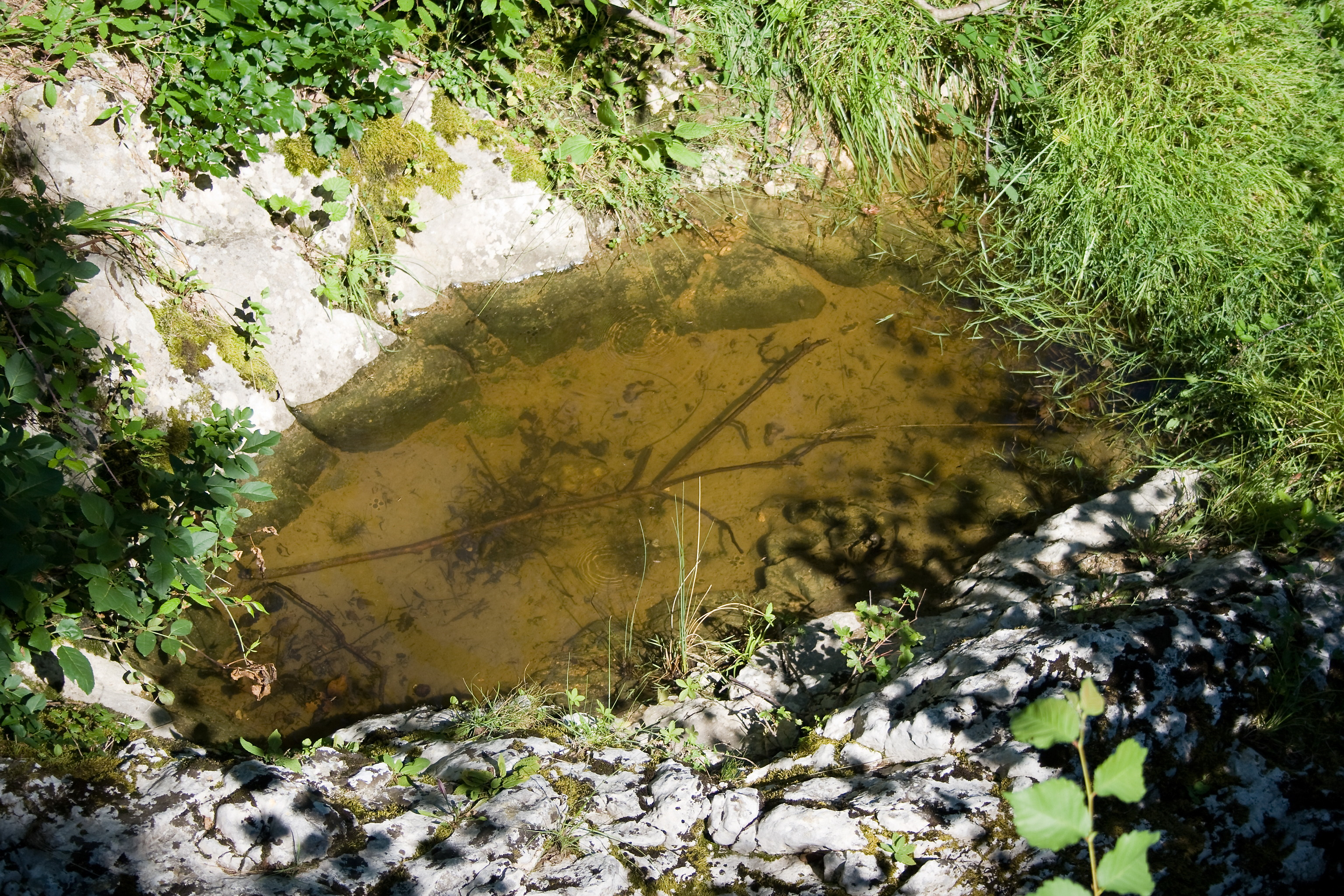 Habitat of the Yellow-bellied toad (Bombina variegata) near Lovranska Draga, Istria, Croatia.